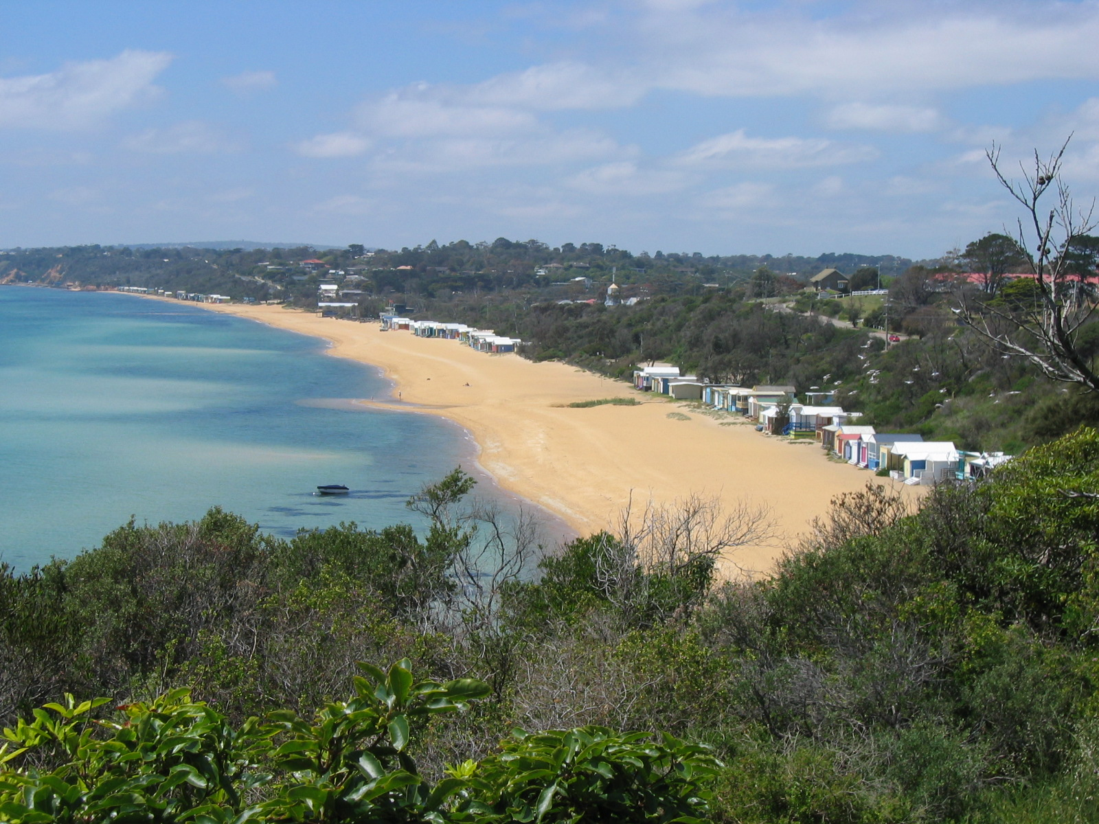 Mount Martha Beach looking north-east from near Victoria Crescent, Mount Martha, Victoria.